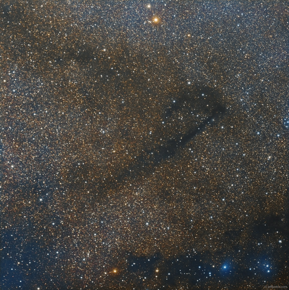 LDN 778 (center) and Alpha Vulpeculae (red giant, top center) imaged using amateur telescope.